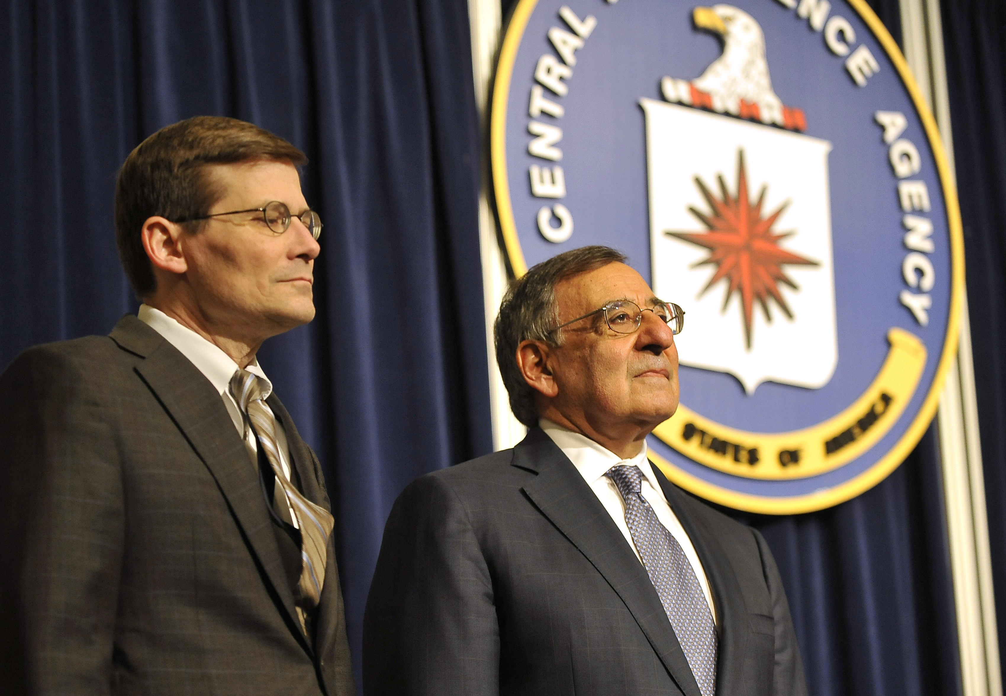 Secretary of Defense Leon E. Panetta stands with Michael Morell, acting director of the CIA, as a citation is read in Morell's homor on stage during one final visit to the CIA Feb. 14, 2013. (DoD Photo By Glenn Fawcett) (Released)